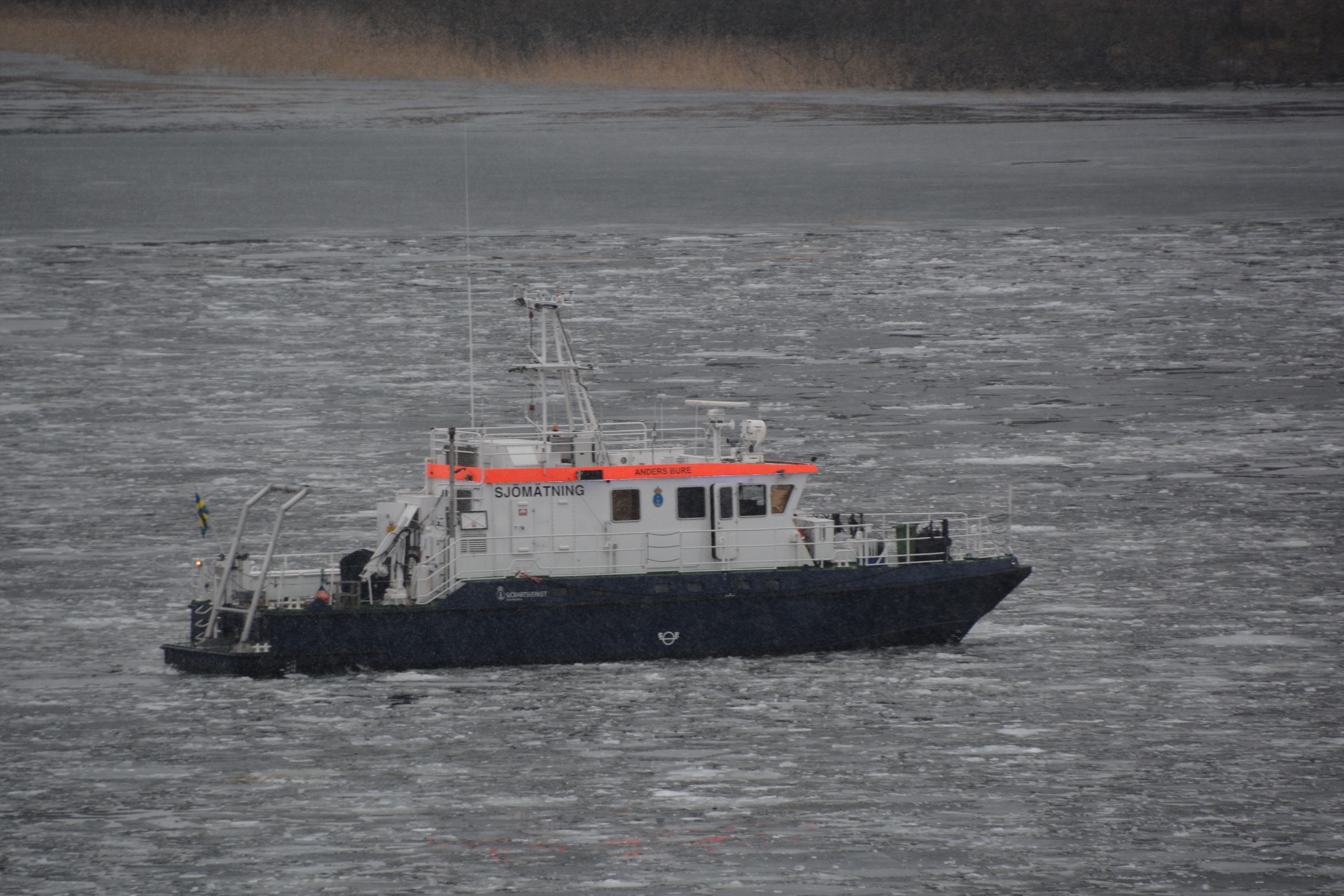 M/S Anders Bure, Swedish hydrographic survey ship on lake Mälaren in Stockholm, Sweden